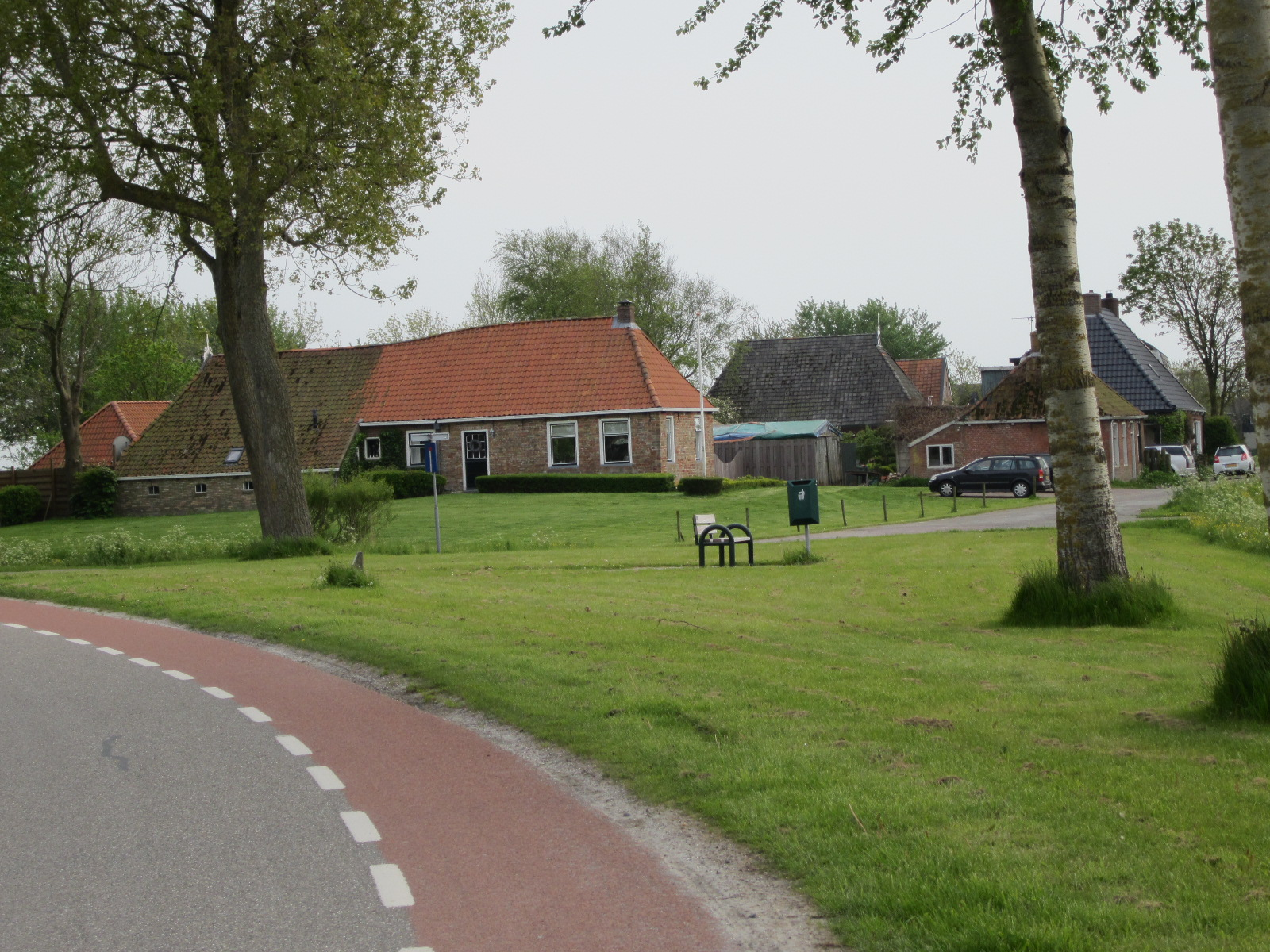 Hamlet Hallumerhoek, county Friesland. The Netherlands.